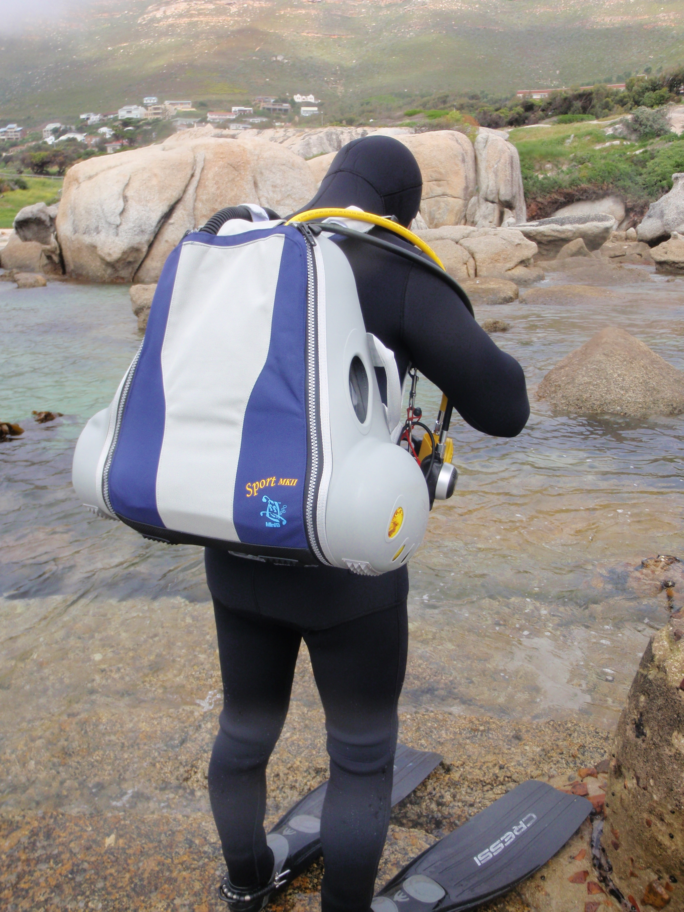 Recreational scuba set comprising harness with integrated carry bag, containing cylinder, buoyancy compensator and regulator at Windmill Beach